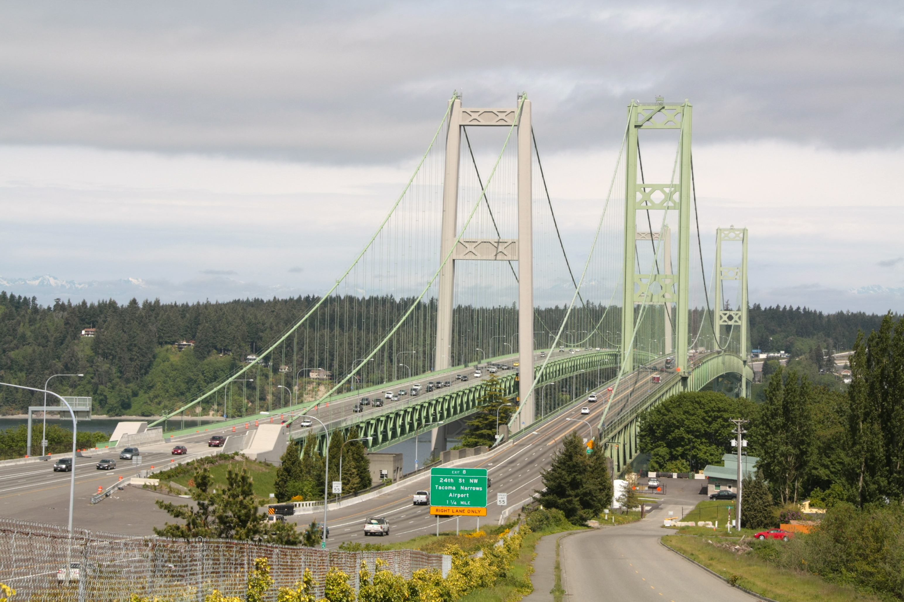 Tacoma Narrows Bridge seen from the south (Tacoma Side). Left: new bridge from 2007, right: old bridge from 1950.